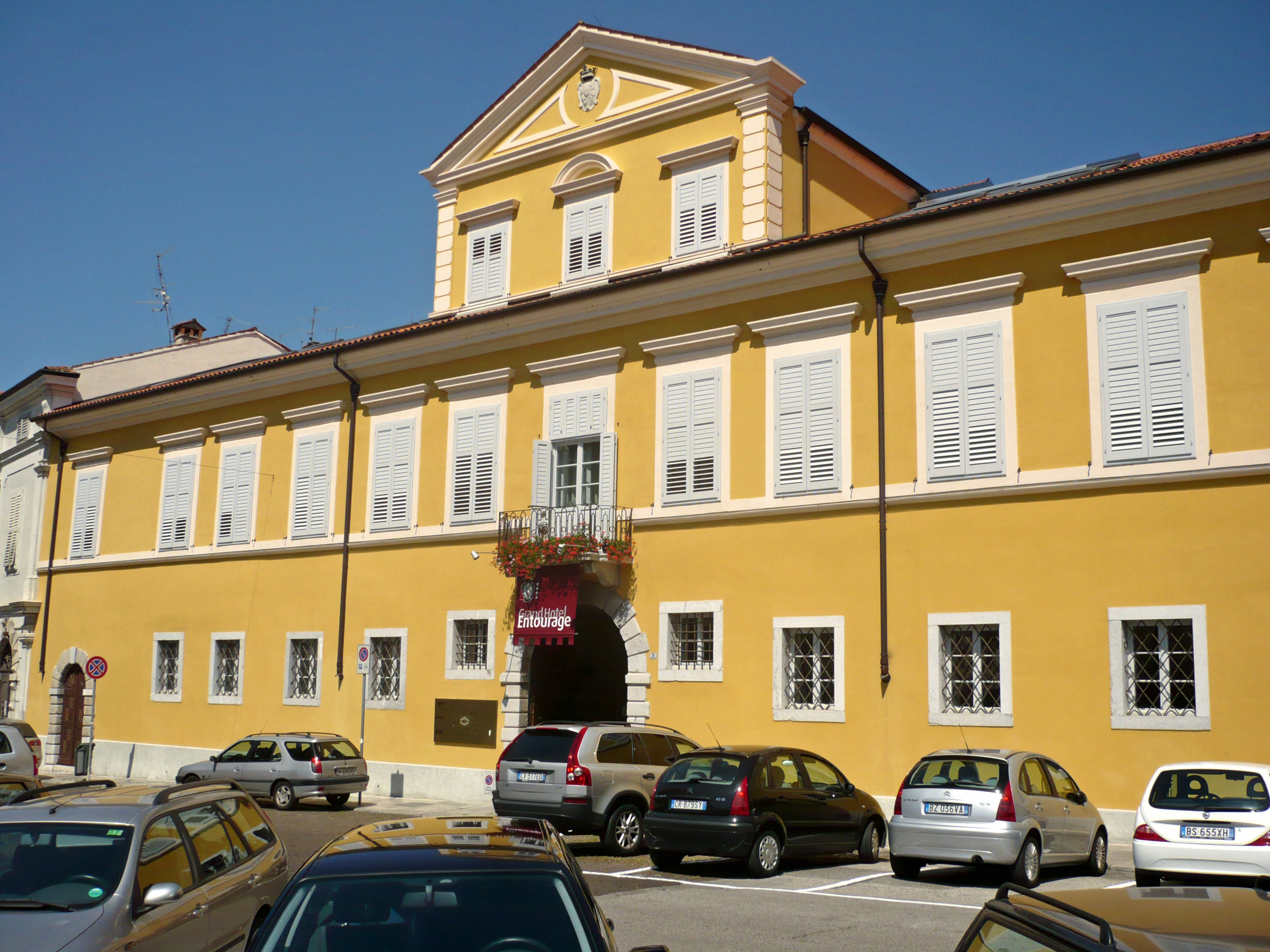 Strassoldo Palace /Gorica, Italy.